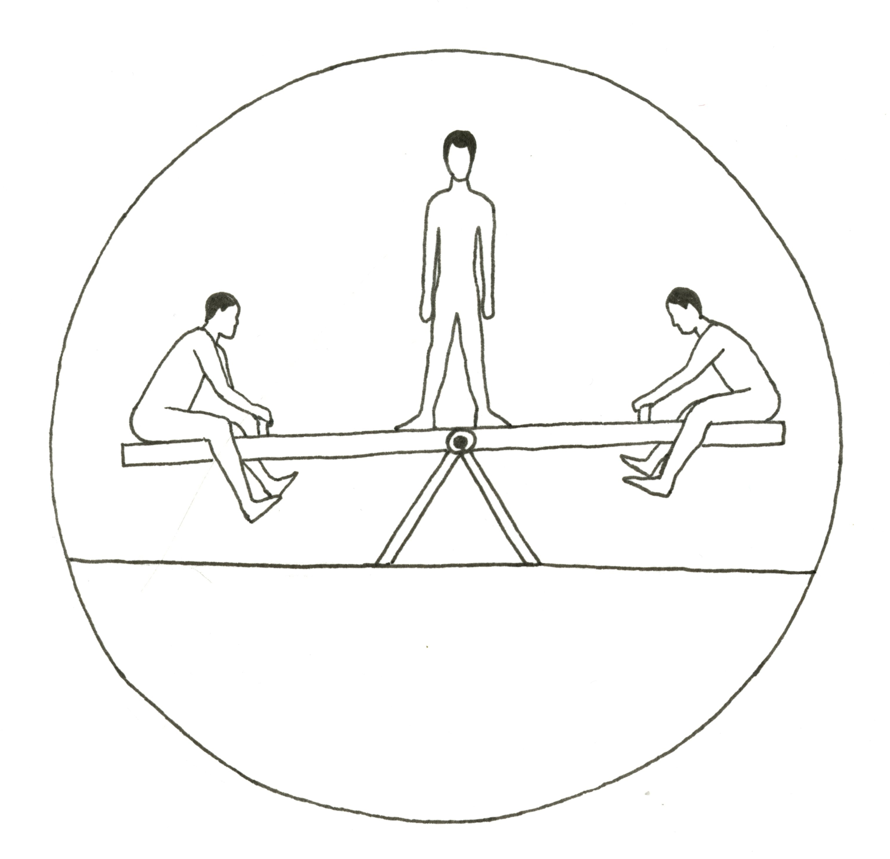 Tilt position.